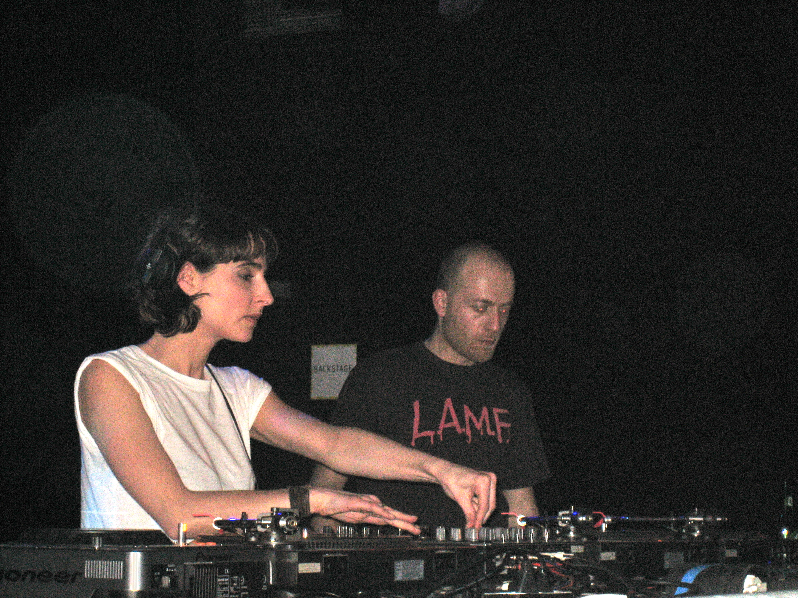 Scratch Massive (band) mixing at "La Laiterie" in SXB (Strasbourg)